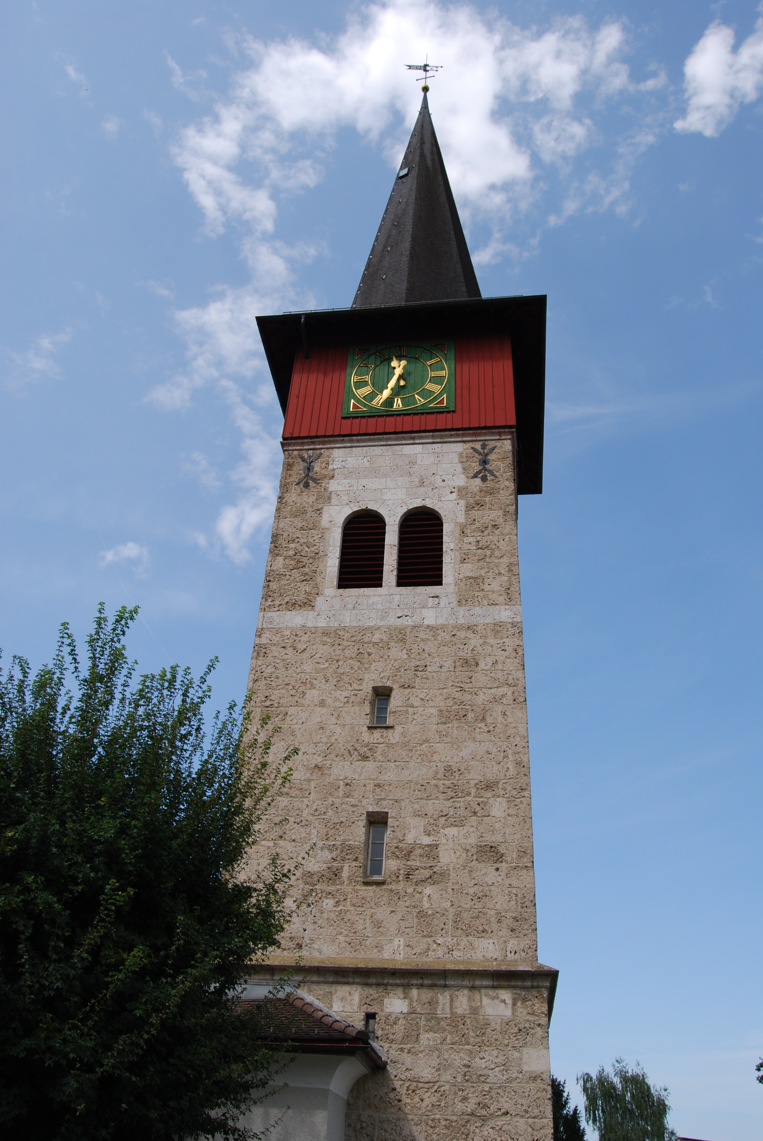 Church of Ganterschwil, canton of St. Gallen, Switzerland